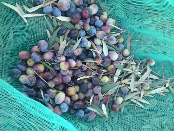 Azemmur